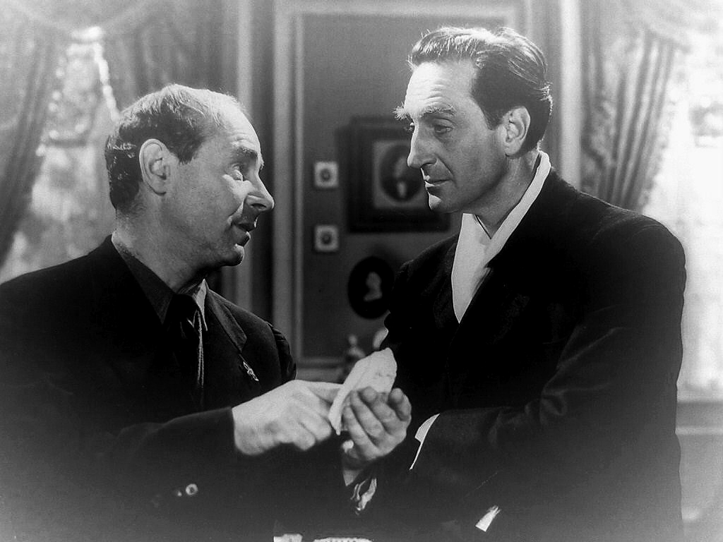 Mikhail Rasumny (left) & Basil Rathbone in the film Heartbeat (1946) - cropped screenshot